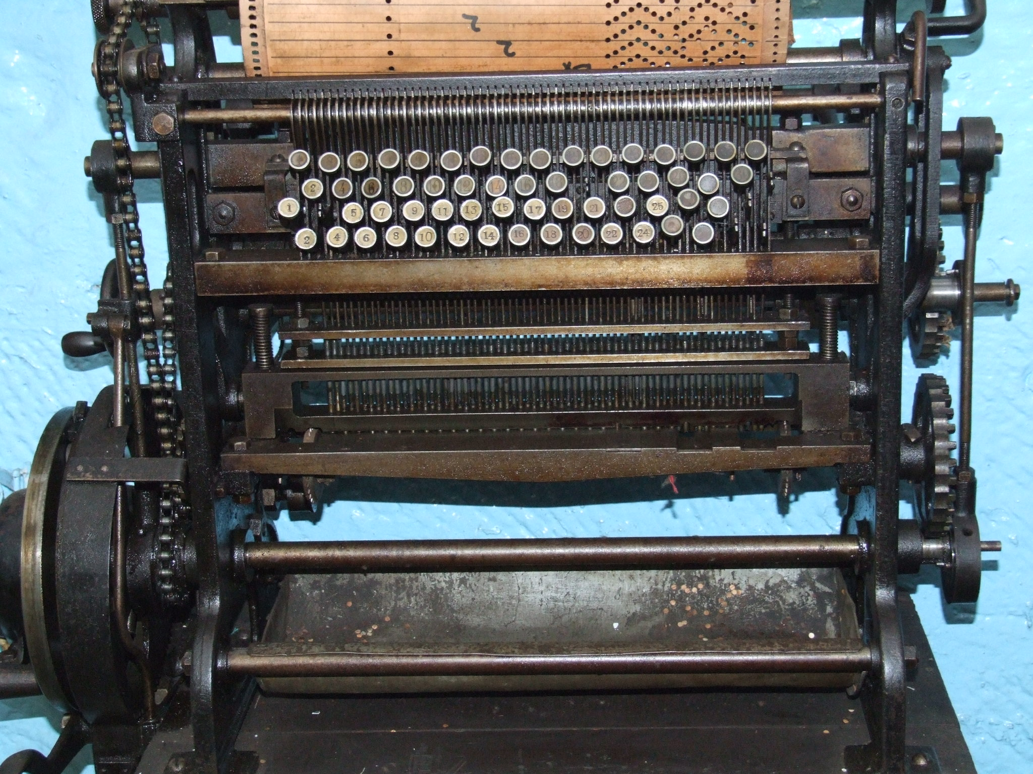 Masson Mills built in 1783 is home to a working textile mills. A card punch used to cut a card for a Jacquard Loom which in this mill were produced by Hattersley's